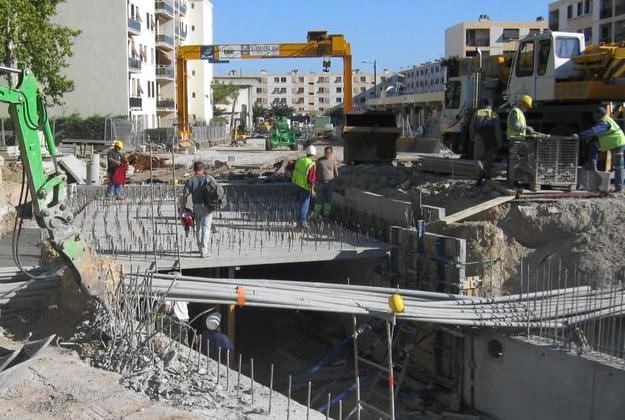 Road workers at Montpellier preparing a tramway passage Uploaded by Fred.th 10:25, 13 October 2005 (UTC) Edited by user:Dr. Meierhofer 23:16, 18 Jan 2007